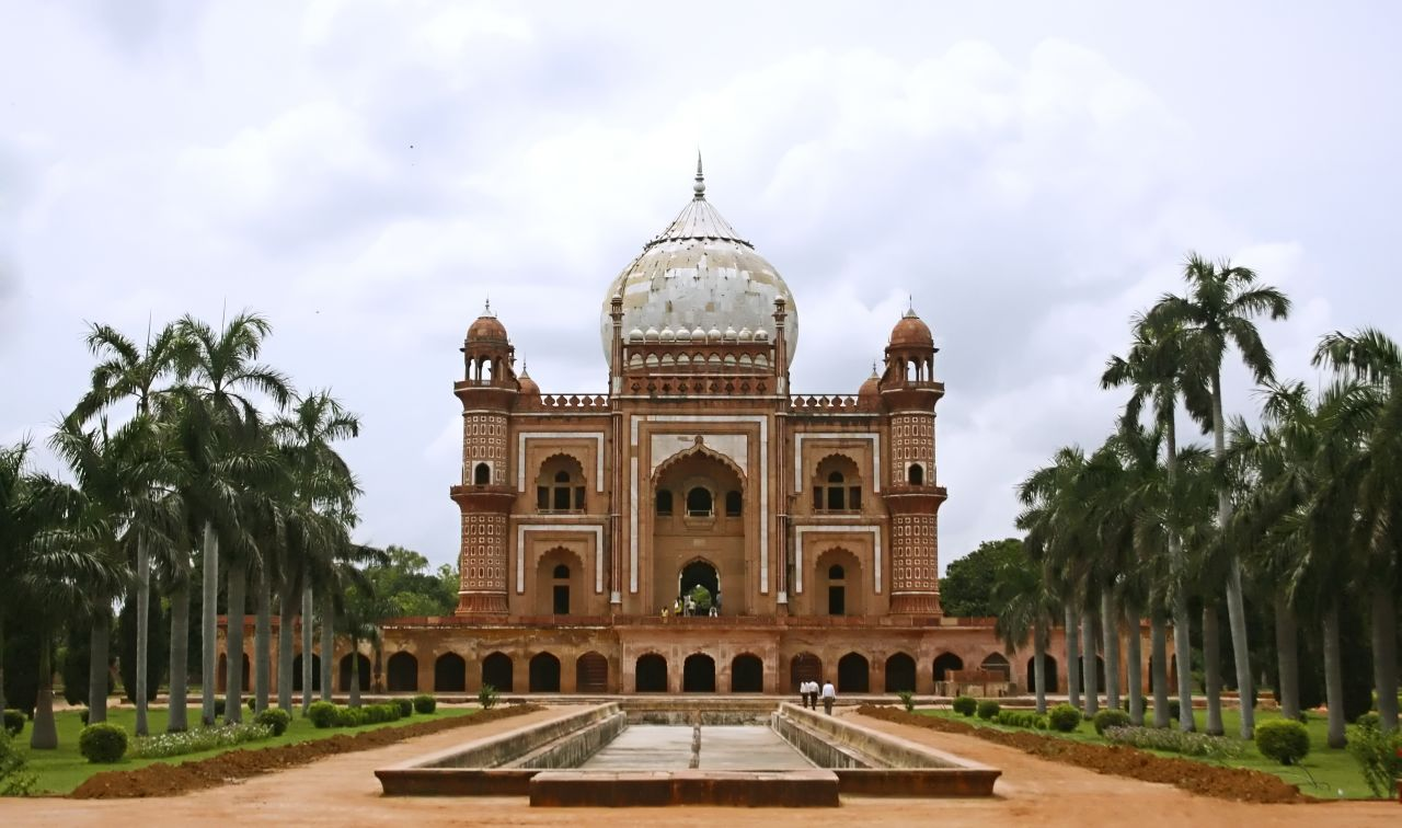 Safdarjung's Tomb at Delhi (India) © 2008, All Rights Reserved by Shashwat Nagpal